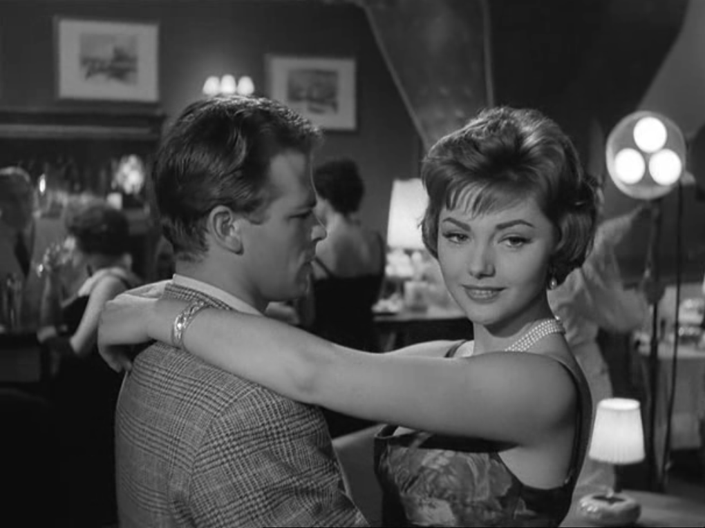 Screenshot from Poveri milionari (1959)